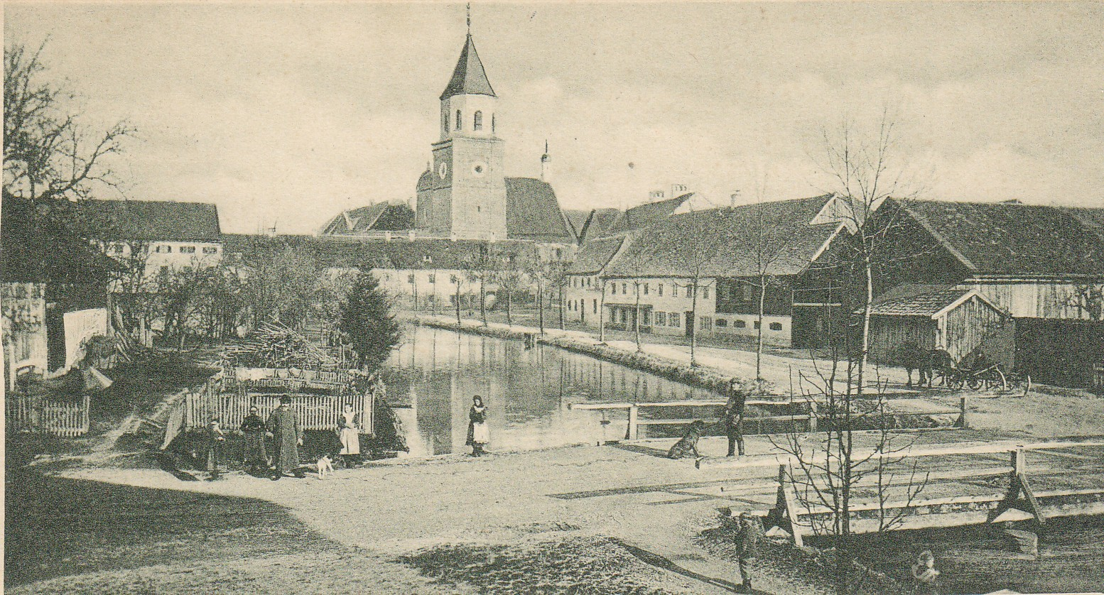 Polling near Weilheim in Upper Bavaria: Brigde with monastery in background; detail of picture postcard